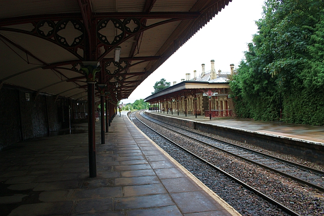 Great Malvern Station Looking toward Colwall, Ledbury and Hereford.